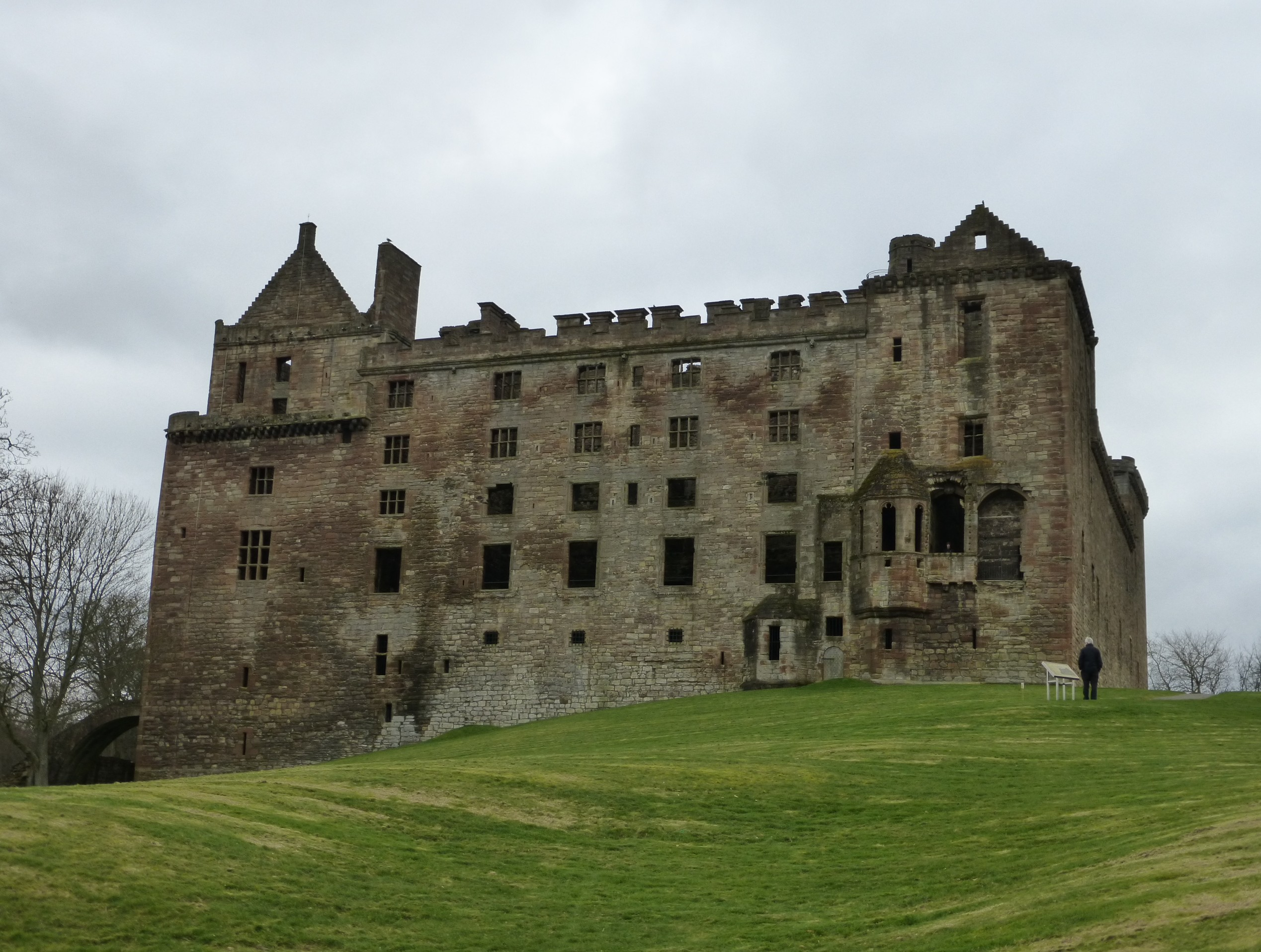 Linlithgow Palace north range